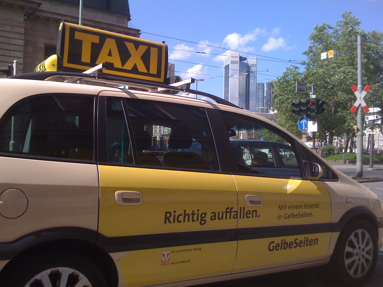 Taxi Top Advertising